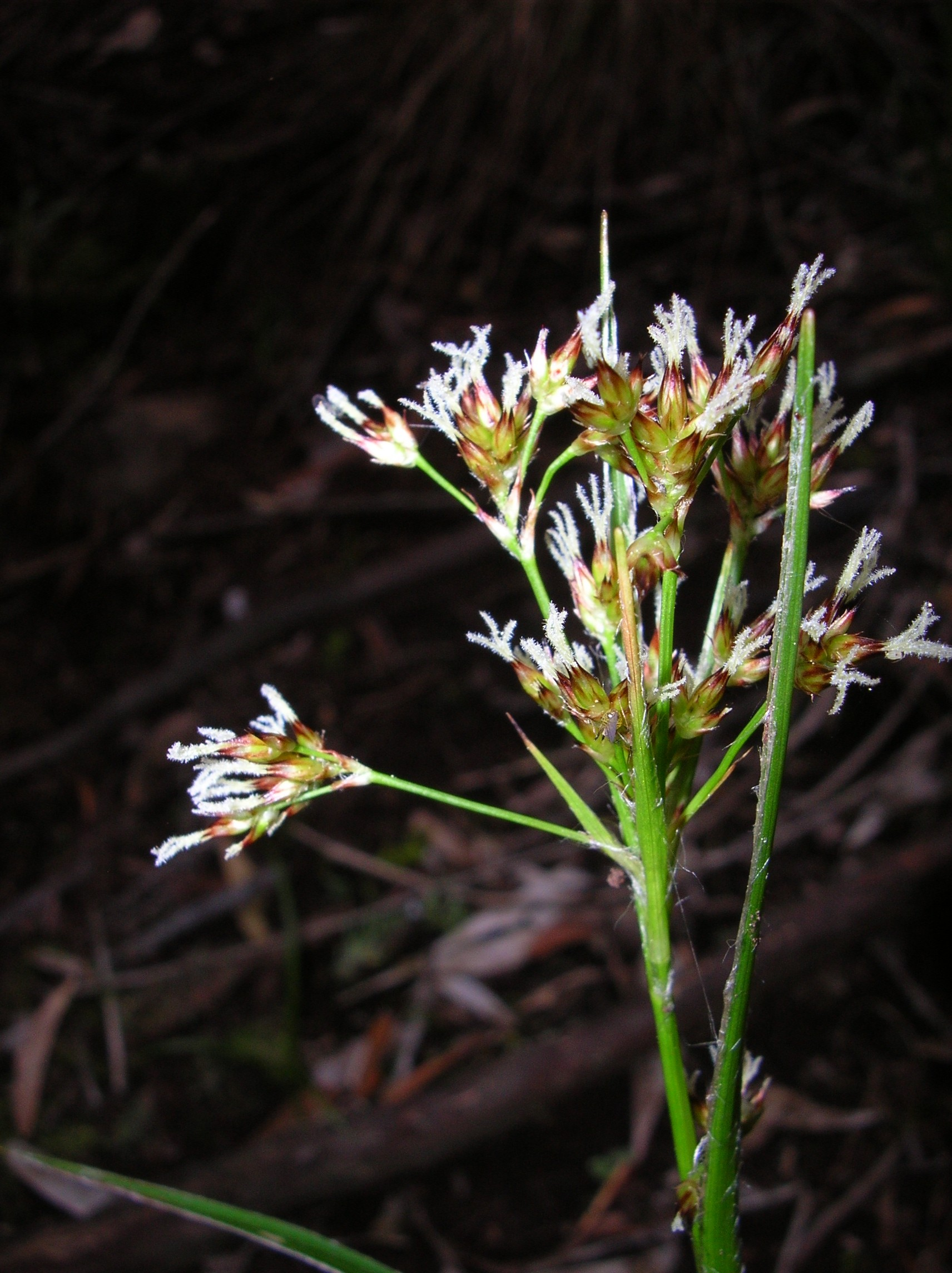 Luzula hawaiiensis (flowers). Location: Maui, Polipoli